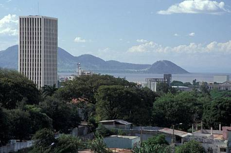 Skyline of the Capital of Nicaragua.